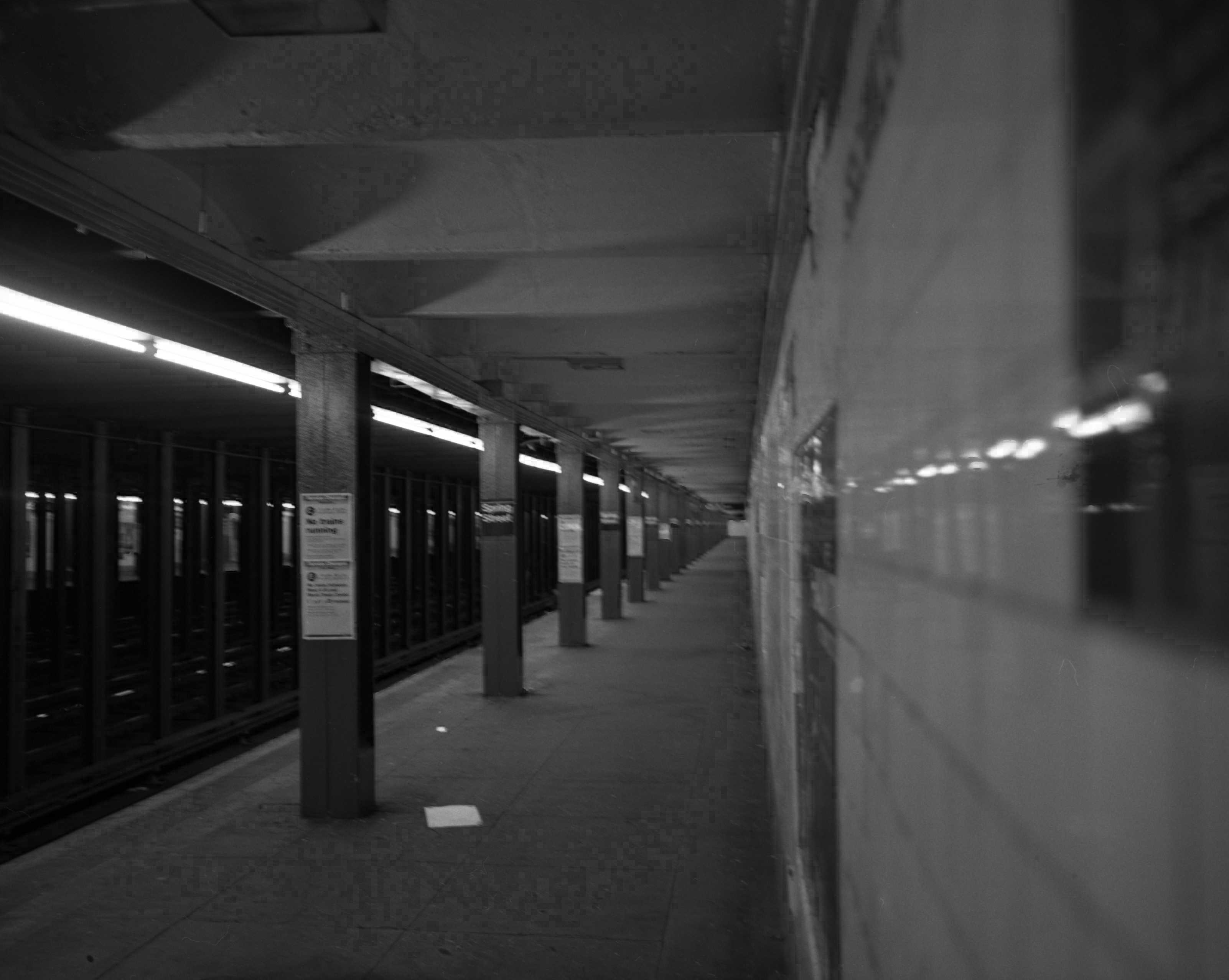 Spring St Station